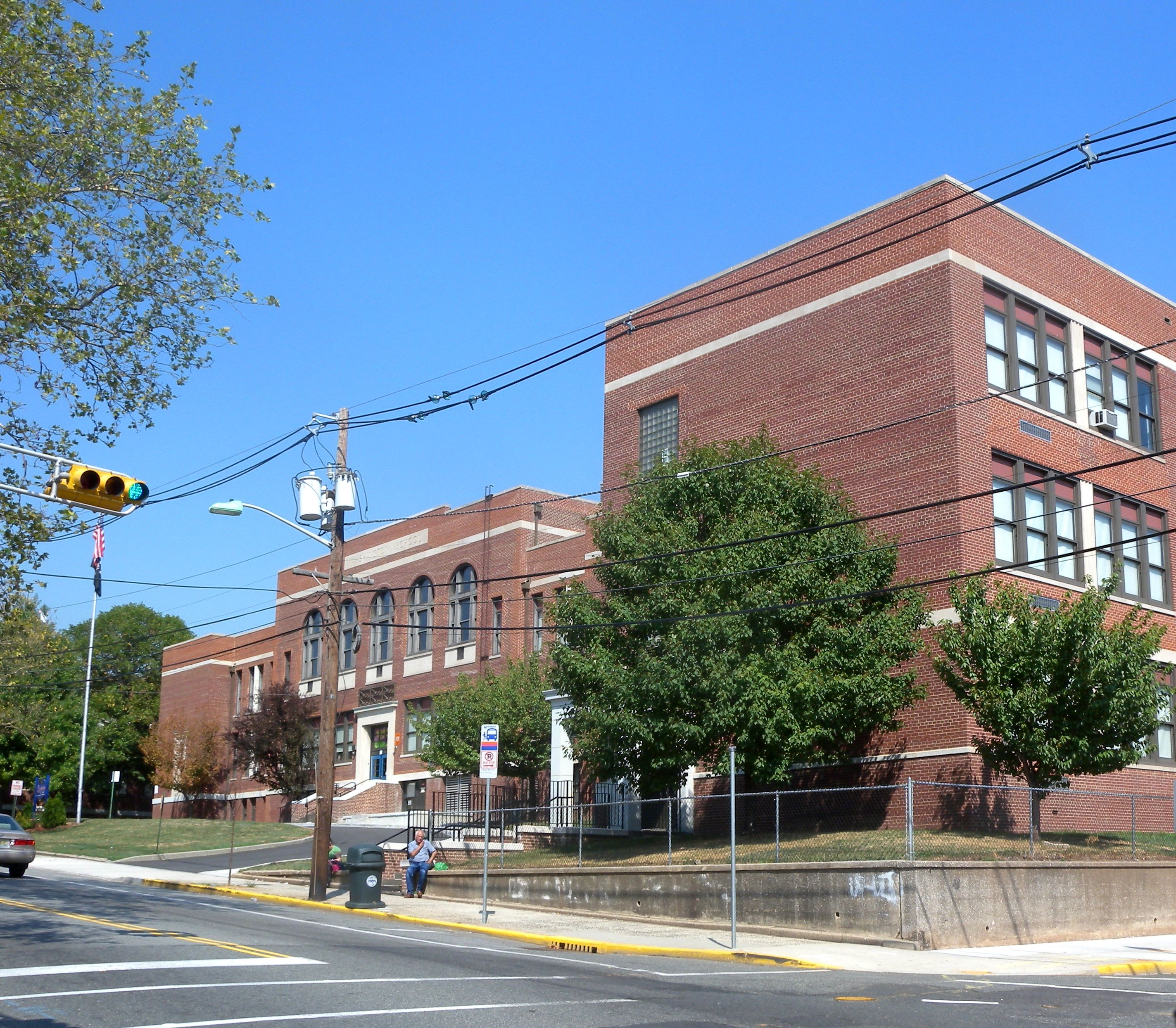 Looking northeast at Washington Elementary School on a sunny early afternoon.